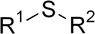 general chemical structure of a thioether